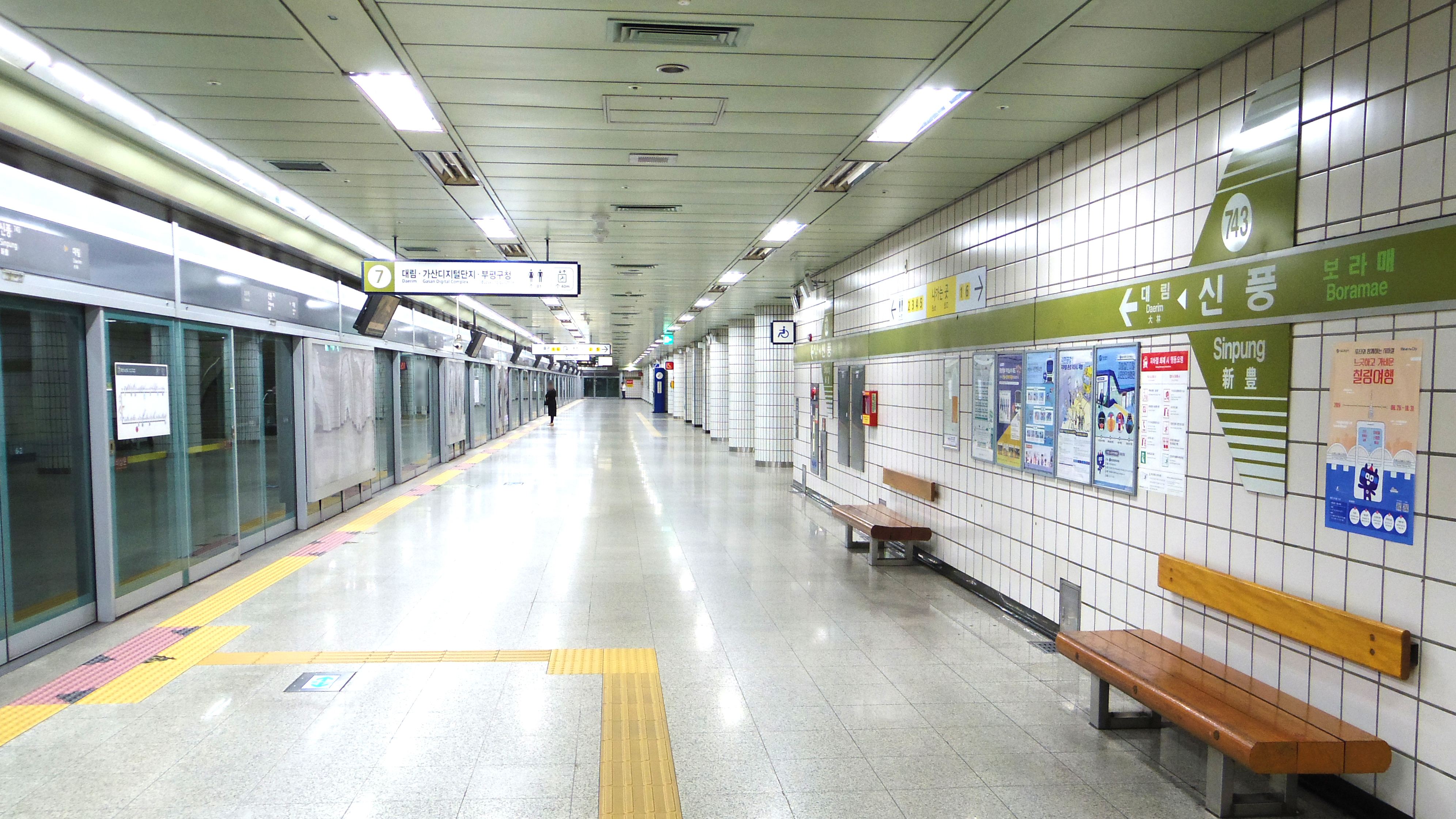 The Onsu-bound platform at Sinpung Station on the Seoul Subway Line 7 in Yeongdeungpo-gu, Seoul, Republic of Korea(South Korea)